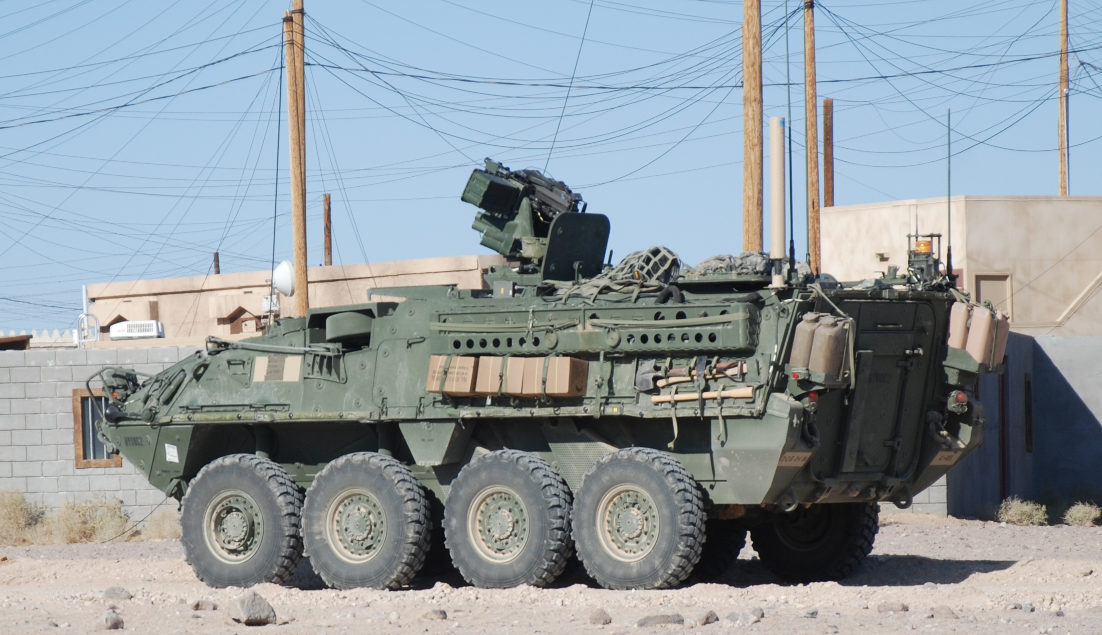 Stryker Armoured fighting vehicle at at Medina Wasl in Fort Irwin National Training Center in California